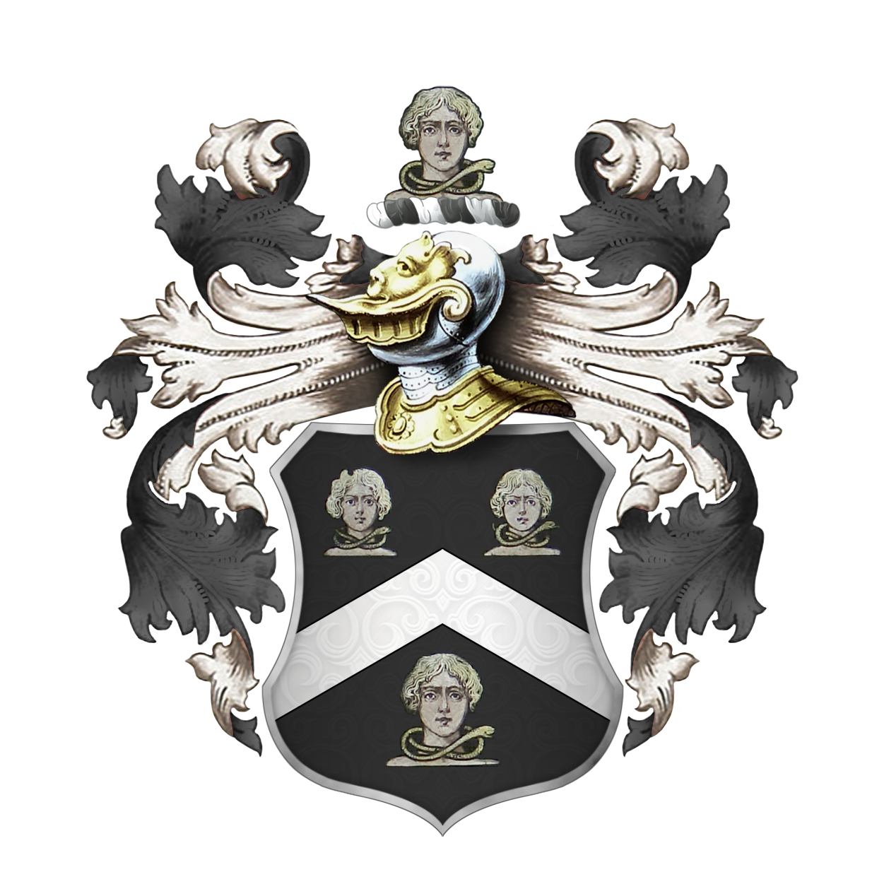 Coat of Arms - Vaughan, of Hergest, Powys, Wales